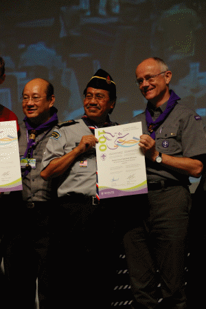 Malaysian Scouts received 100 years diploma from WOSM